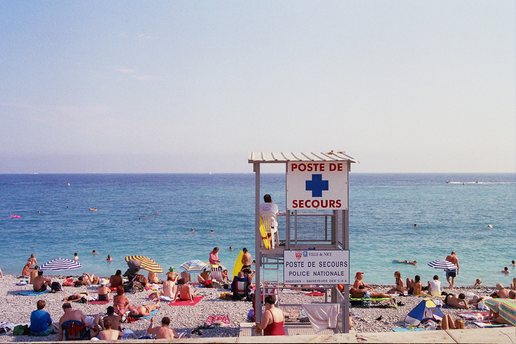 Nice, Beach/La Plage